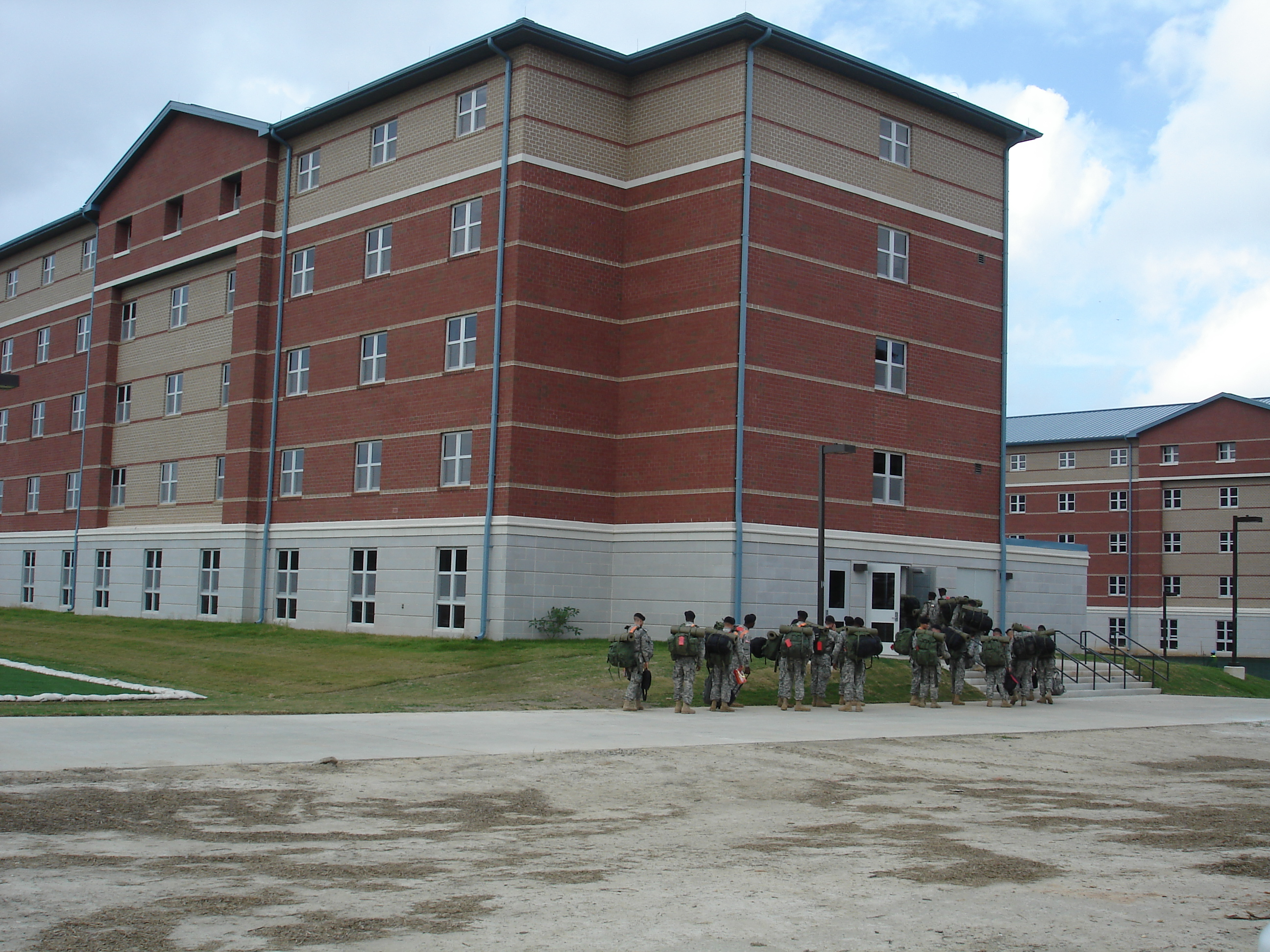 A group of Soldiers make their way into the newly constructed barracks. On Sept. 23, more than 500 ordnance Soldiers arrived at Fort Lee, Va. -- the first wave of advanced individual training Soldiers to begin training at the Ordnance School's $700 million campus. The Ordnance School will train more than 3,000 Soldiers annually in more than 30 military occupational specialties at Fort Lee. Photo by Albert Cruz, BRAC Construction Office program manager